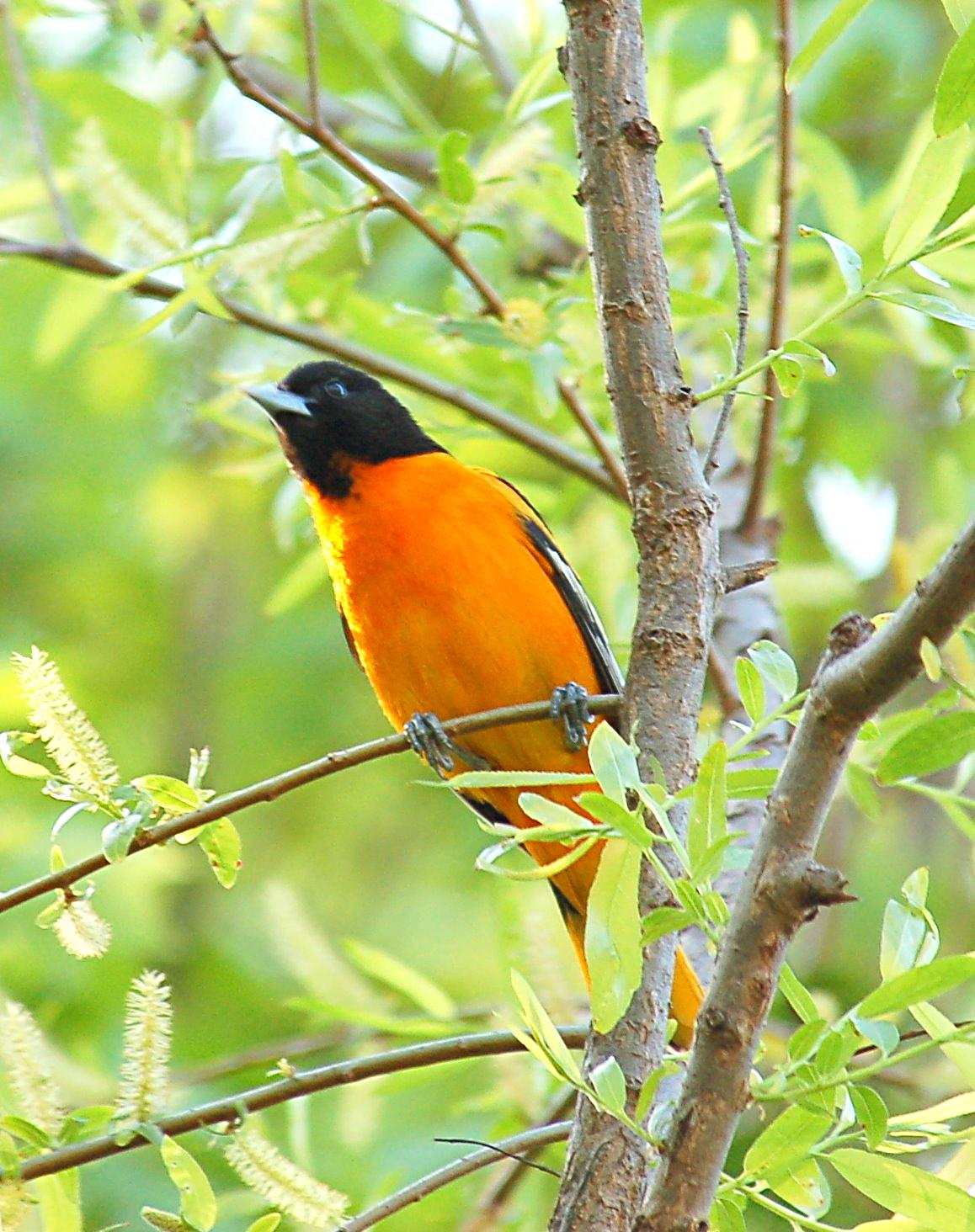 Photographed using Nikon D50 at Rockville, MD, USA.